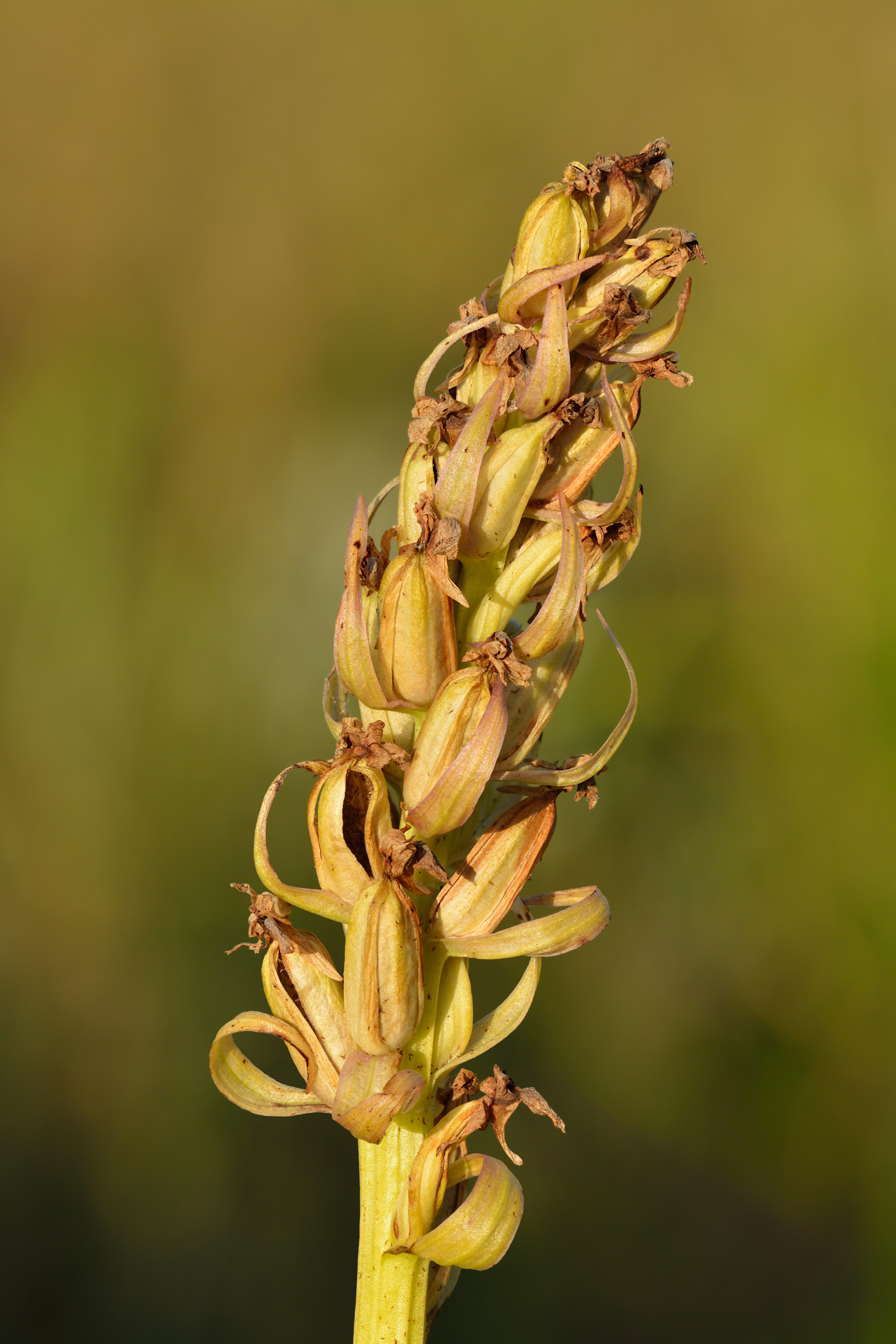 Infructescence of early marsh-orchid